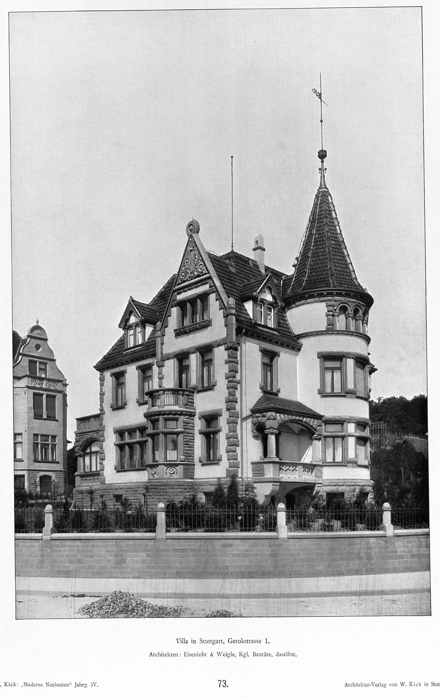 Villa_in_Stuttgart_Gerokstr._1_Architekten_Eisenlohr_&_Weigle,_Kgl._Bauräte_Stuttgart.jpg